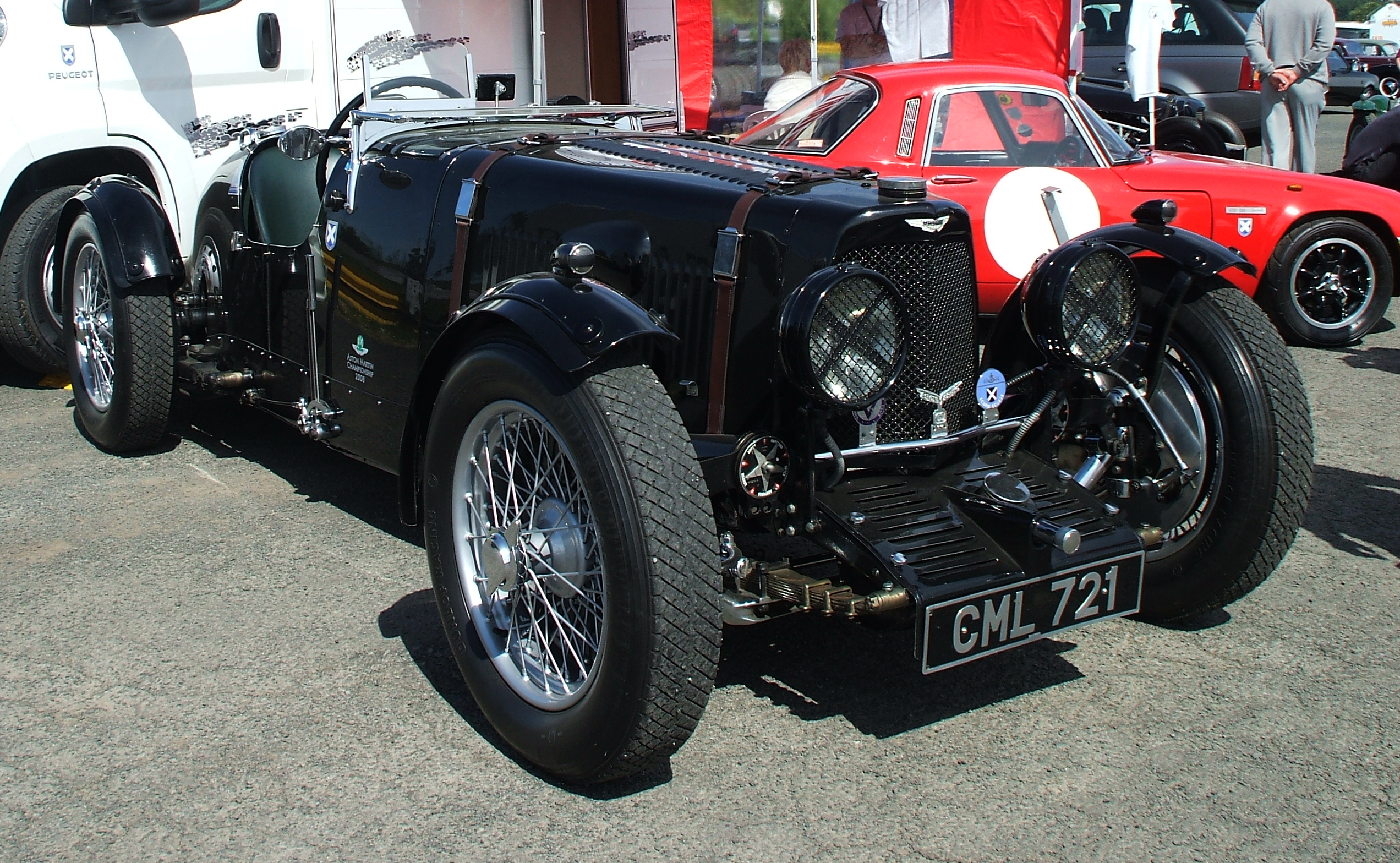 Aston Martin Ulster CML 721